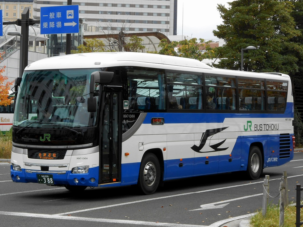 JR bus Tohoku Hino S'elega (QPG-RU1ESBA)highwaybus "Sendai - AizuWakamatsu"